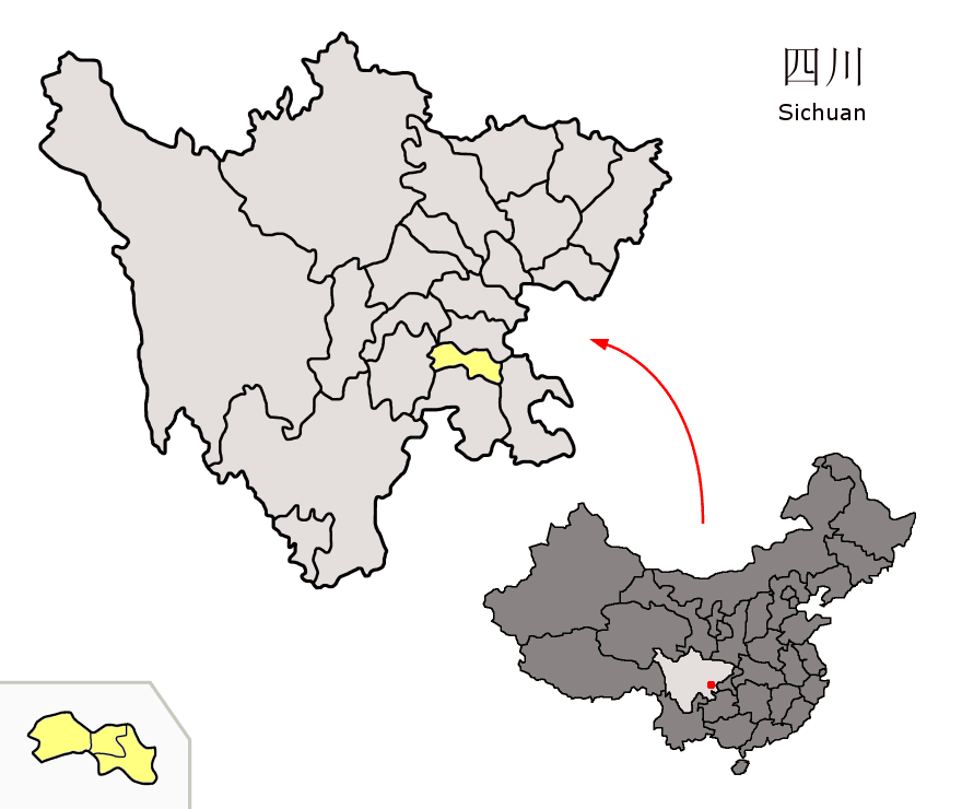 Location of Zigong Prefecture (yellow) within Sichuan province of China Map drawn in october 2007 using various sources, mainly : Sichuan province administrative regions GIS data: 1:1M, County level, 1990 Sichuan Counties map from